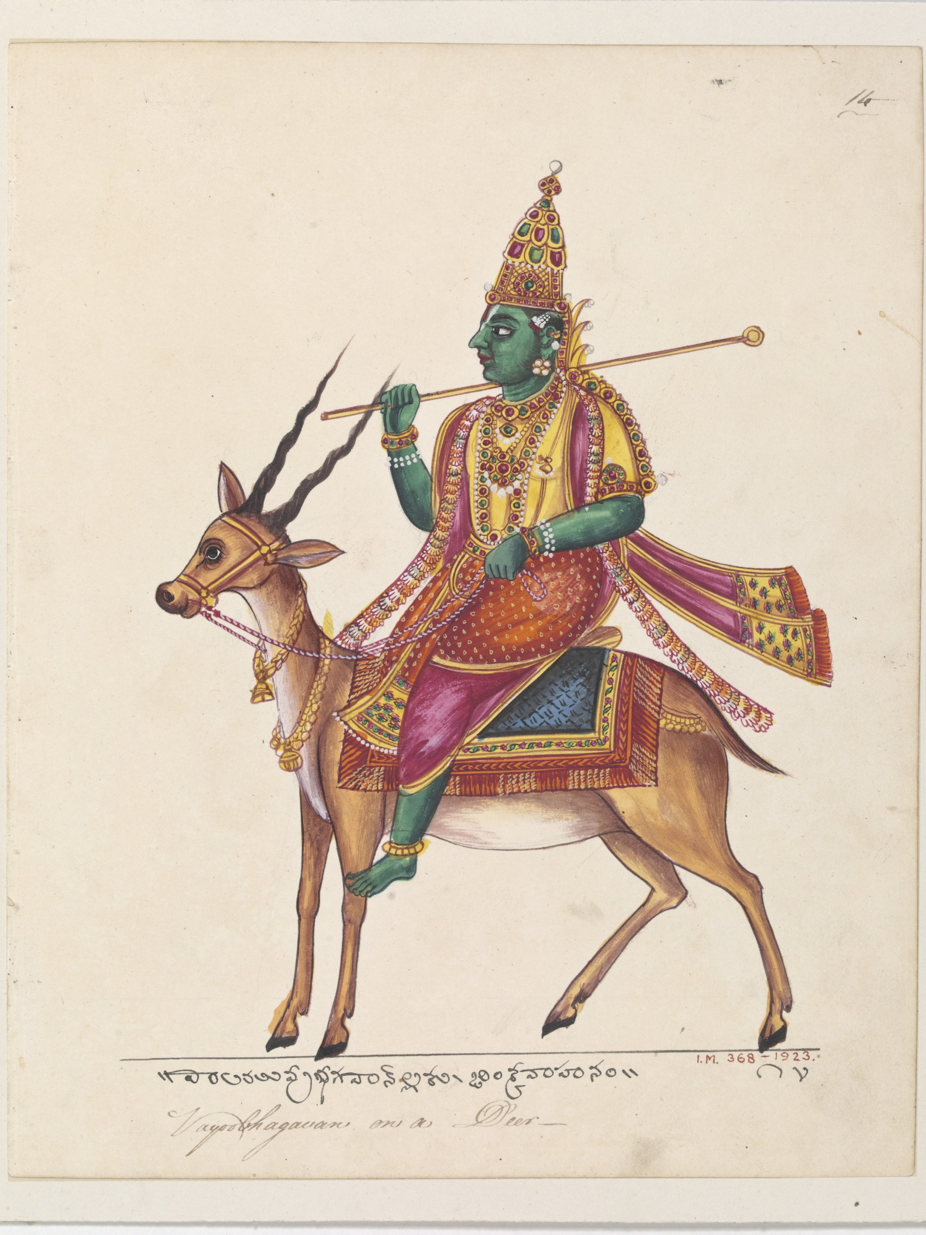 Vayu, god of the wind and guardian of the north-west, riding on a deer. He rides on a gazelle, is clad in royal garments, has a green complexion, and is two-armed. Over his right shoulder he carries a disc-pointed staff , and with his left hand he holds the reins.